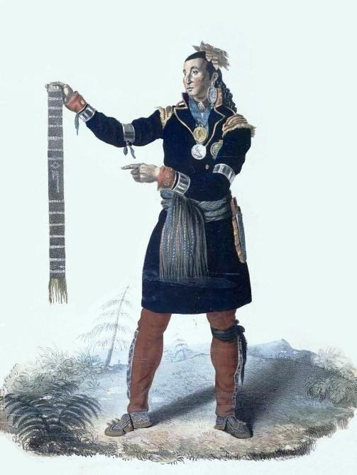 Print, Nicholas Vincent Tsawenhohi, Edward Chatfield, 1825, 33.3 x 29 cm